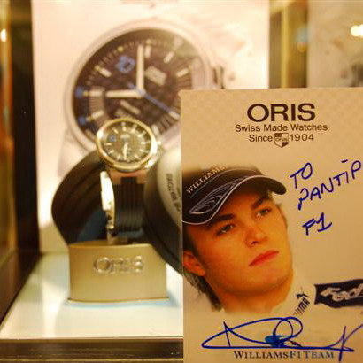 Oris Nico Rosberg Limited Edition Watch and Nico's autograph.